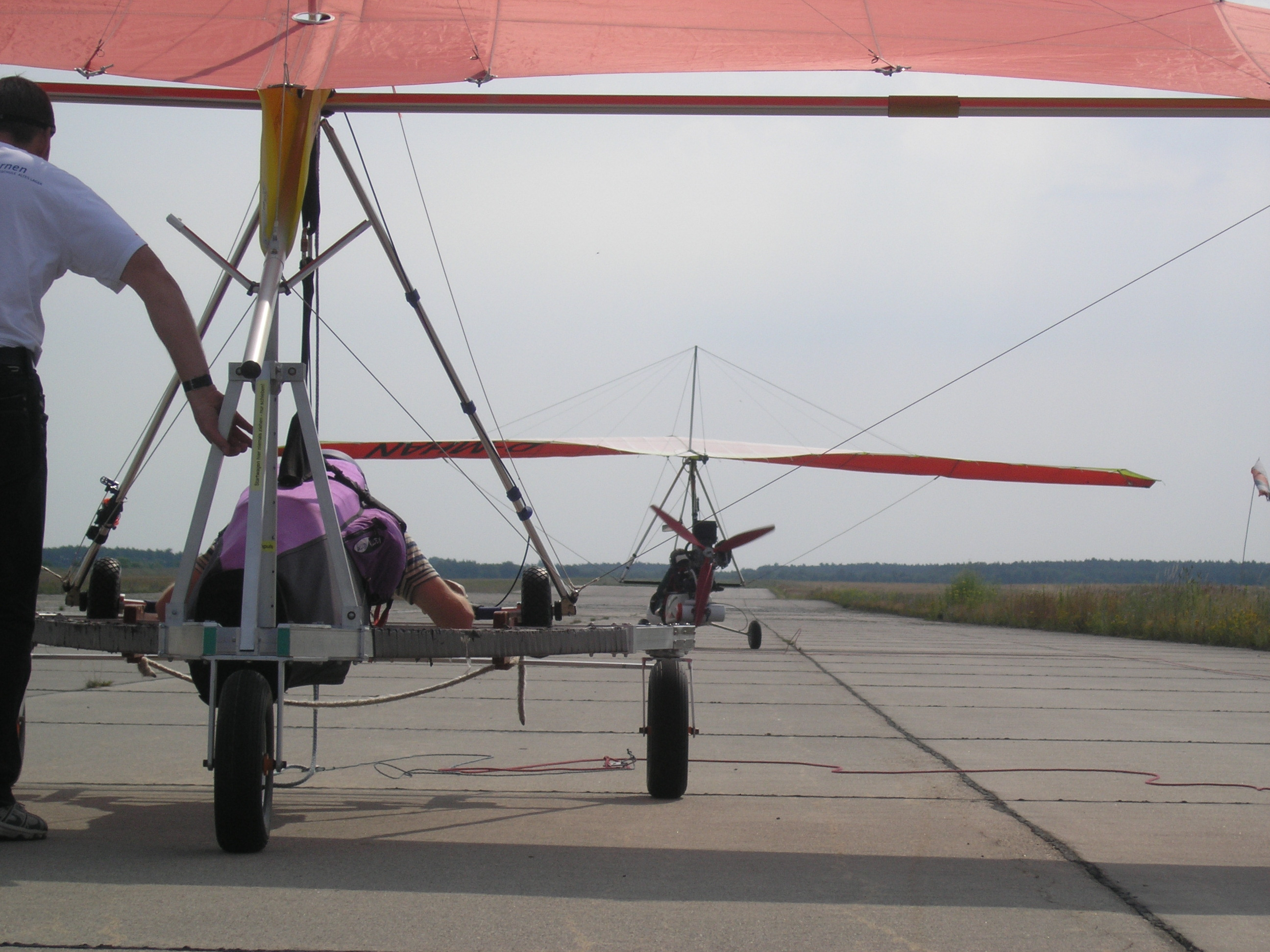 Hang glider on a runway, ready to start by UL-tow. The hang glider is sitting in a three wheeled trolley while the trike is starting its engine. Date: July 2005 Place: Altes Lager, Germany Glider: Mars 170, Icaro Pilot: Christoph Schacht Photographer: Kai-Martin Knaak Copyright under GFDL granted by Kai-Martin Knaak